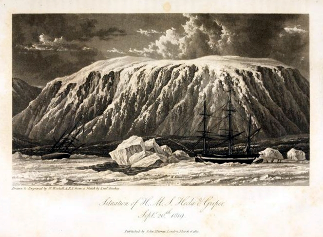 William Edward Parry: Journal of Voyage for the Discorvery of the North-West-Passage from the Atlantic to the Pacific 1819 to 1820